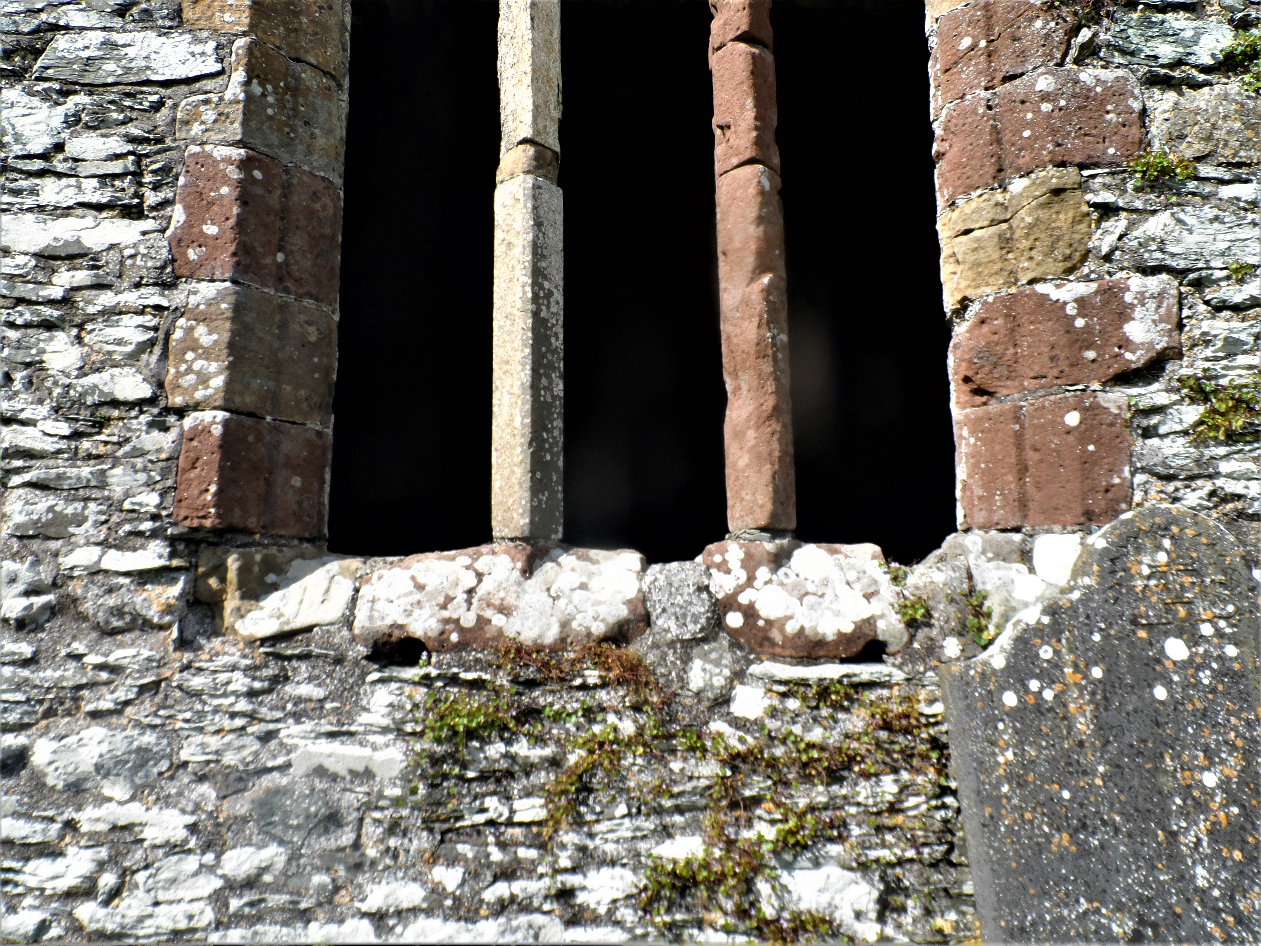 Window in Oughterard